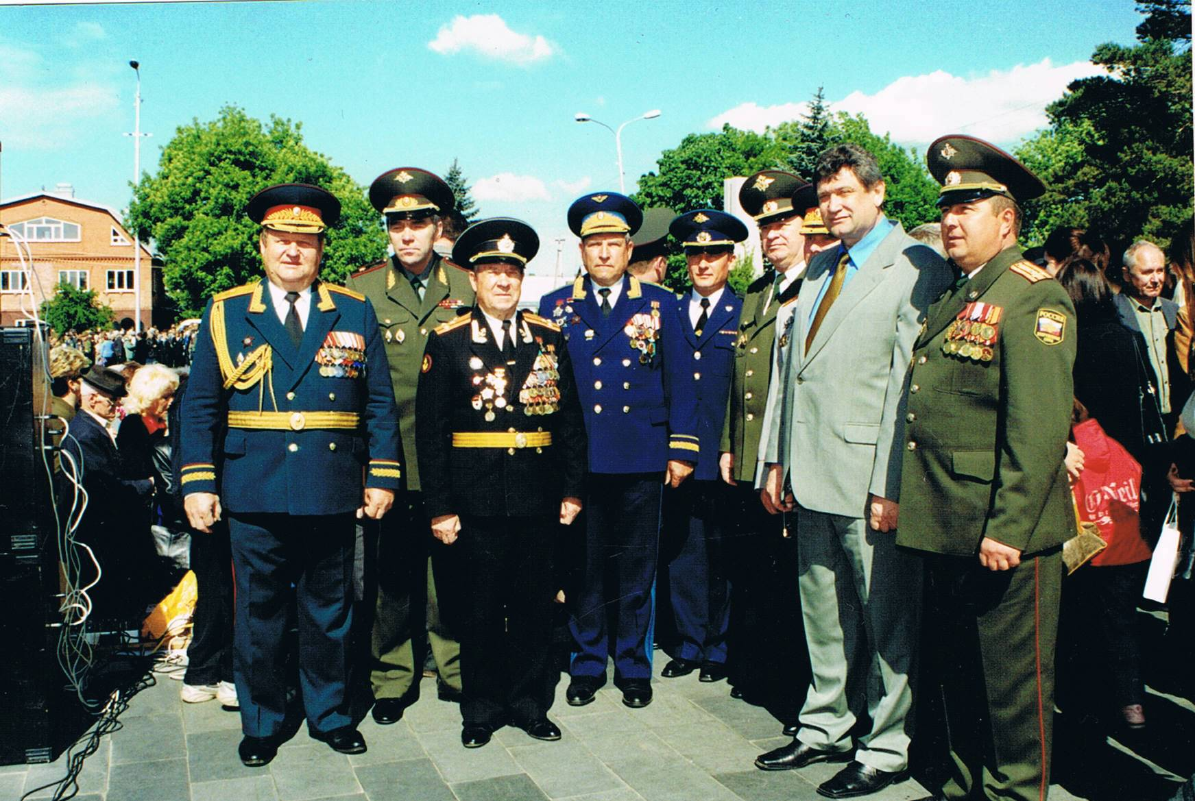 Victory Day (Adygea)